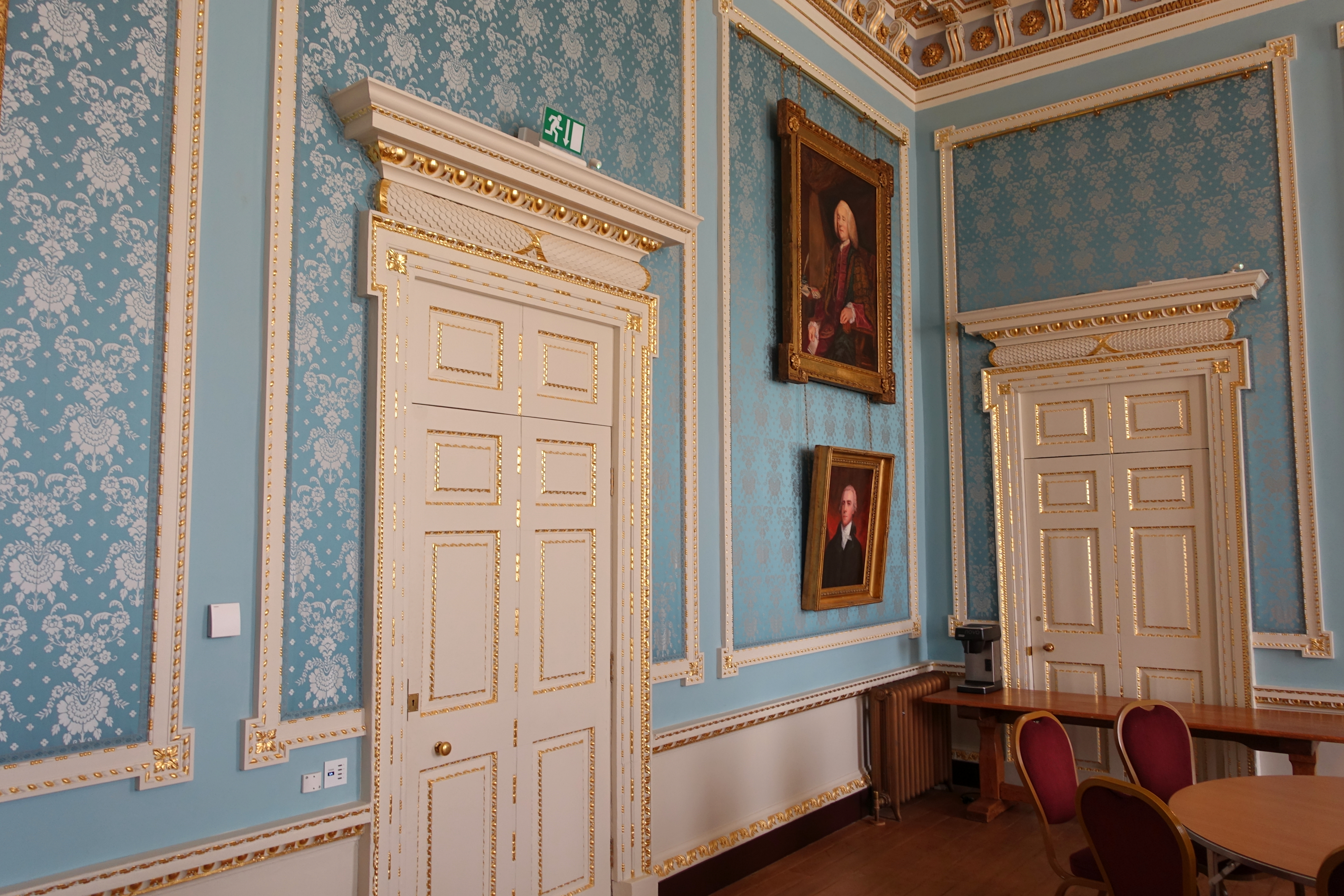 Interior view of Stowe House - Buckinghamshire, England.